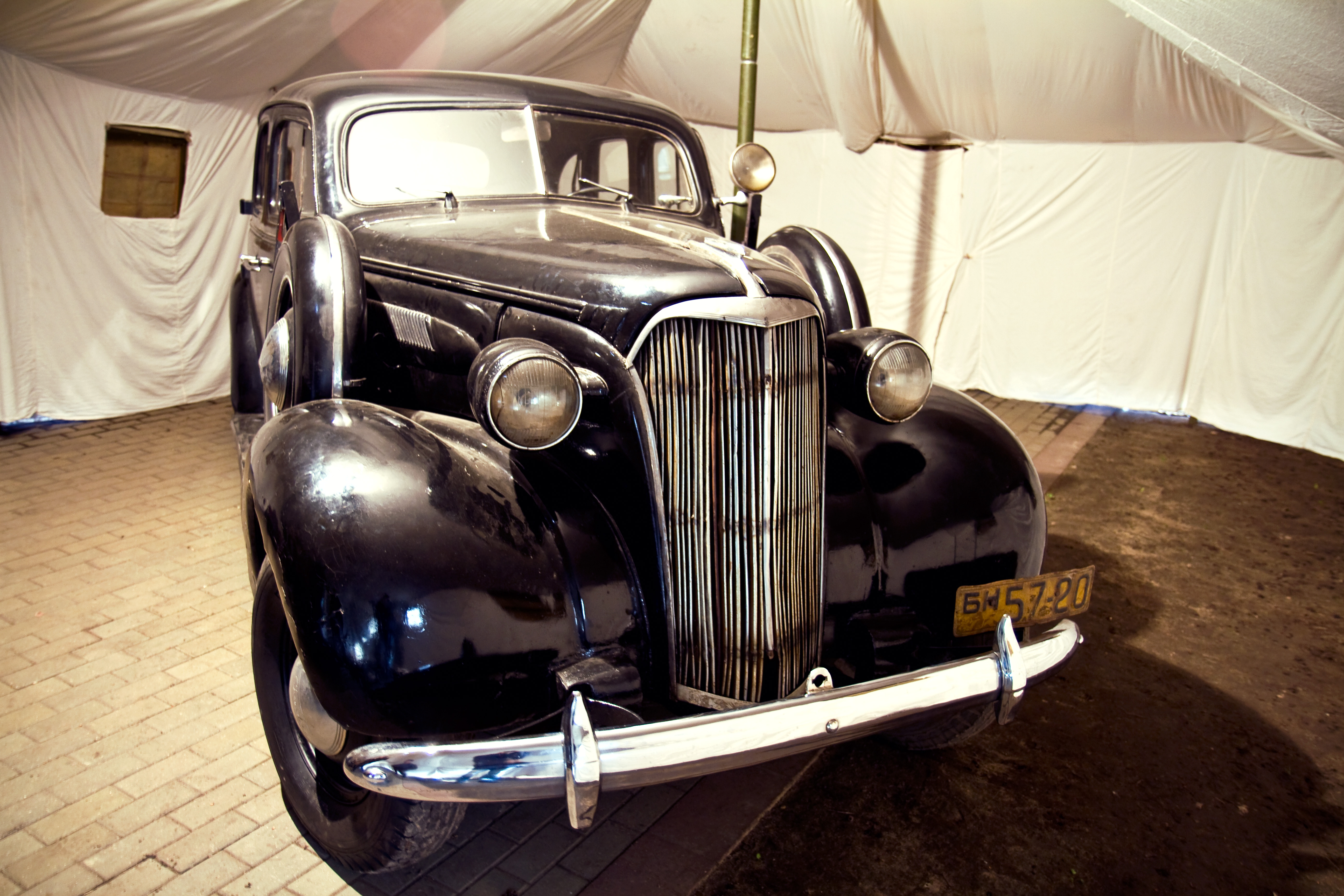 Chevrolet Master Deluxe GA which belonged to Janka Kupała, the Belarusian writer Беларуская (тарашкевіца): Аўтамабіль Chevrolet Master Deluxe GA, які належаў Янку Купалу